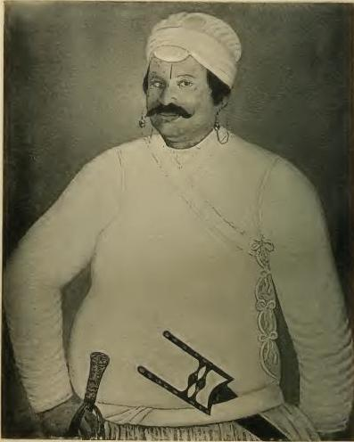 Picture of Ananda Ranga Pillai, from a portrait in possession of his family